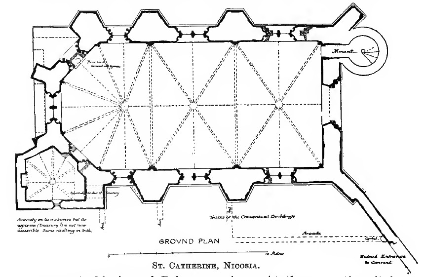 St. Katharina (Haydarpasha Mosque, Nicosia)